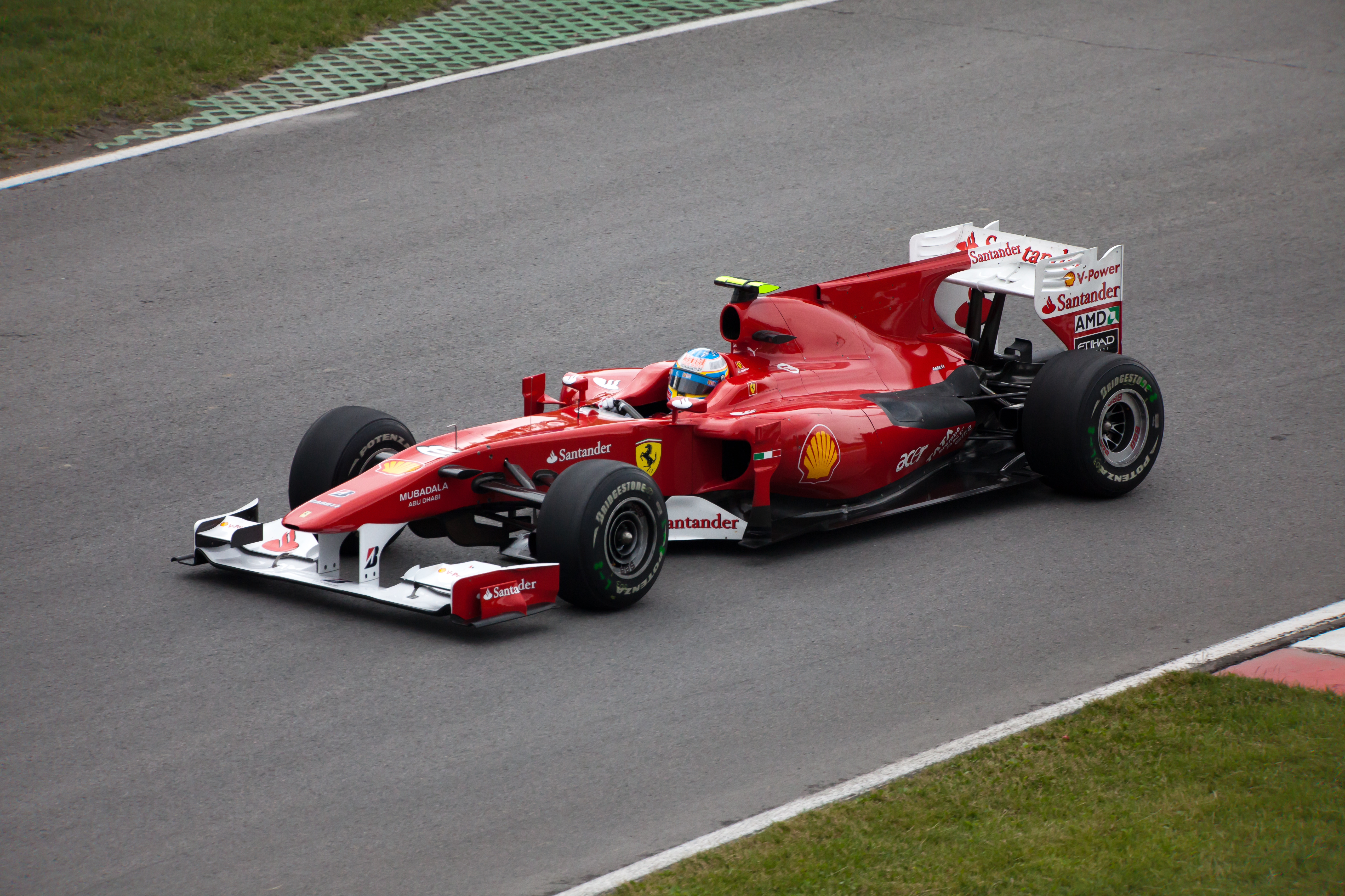 Montreal, Quebec June 2010 Copyright 2010 Patrick Breen Canon EOS 5D Mark II/EF100-400mm f/4.5-5.6L IS USM @ 400 mm 1/3200 sec at f/6.3, ISO 1600, 0 EV, Shutter priority, no flash